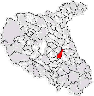 Limits of the Commune of Câmpineanca